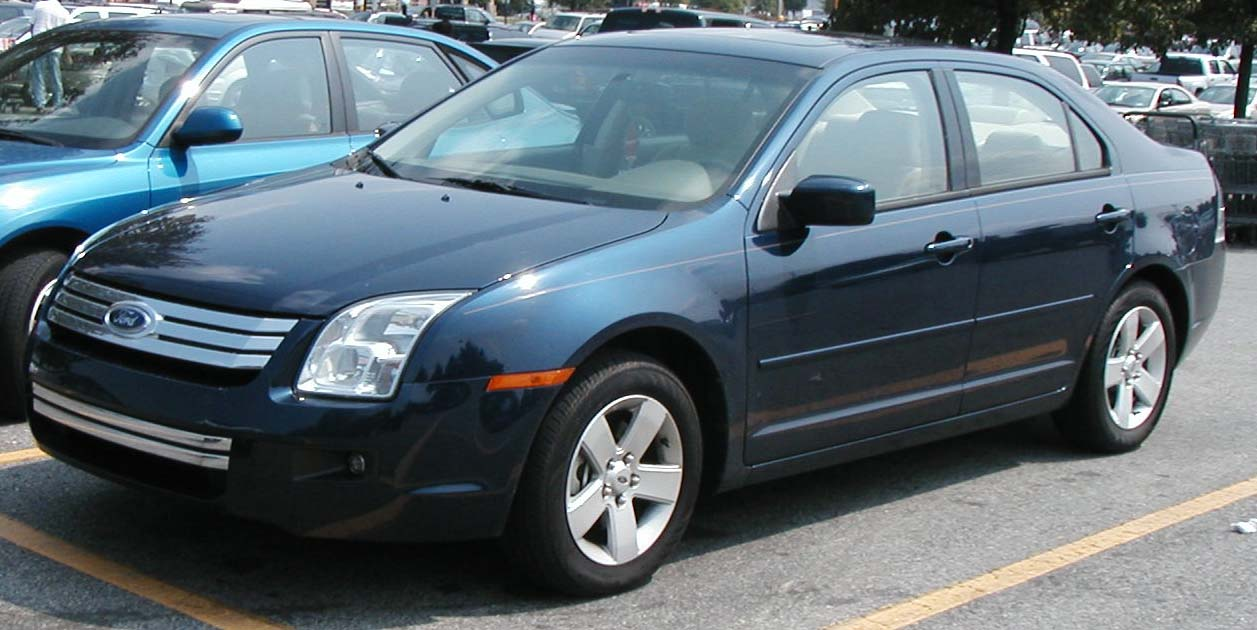 2006-2007 Ford Fusion photographed in USA.